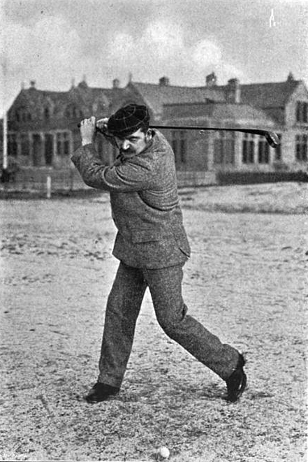 A circa 1896 photograph of Scottish professional golfer Willie Fernie.